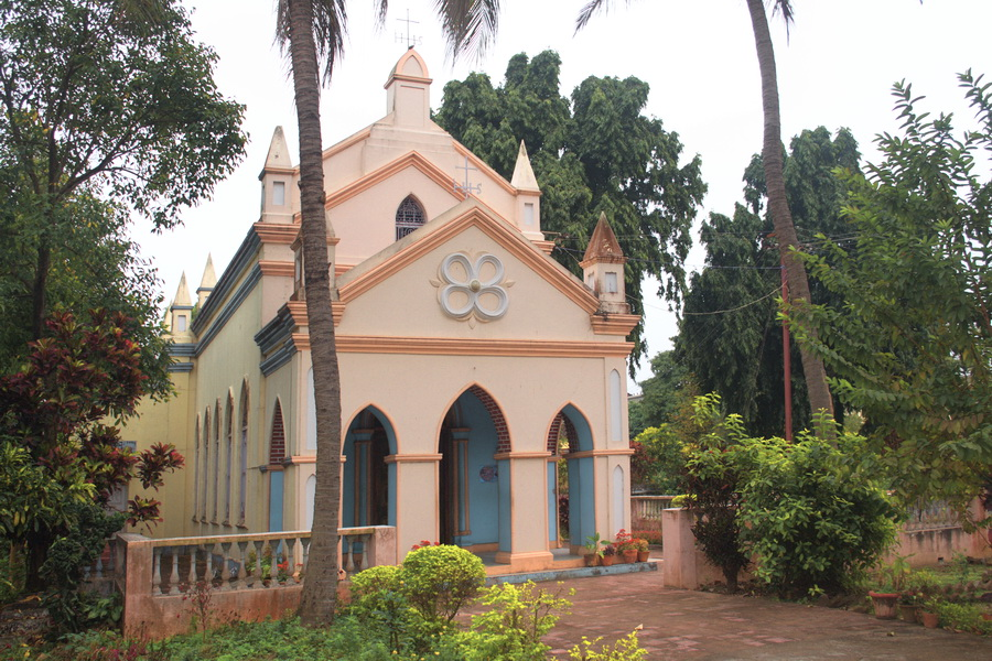 The Old Church at Sahebgunj